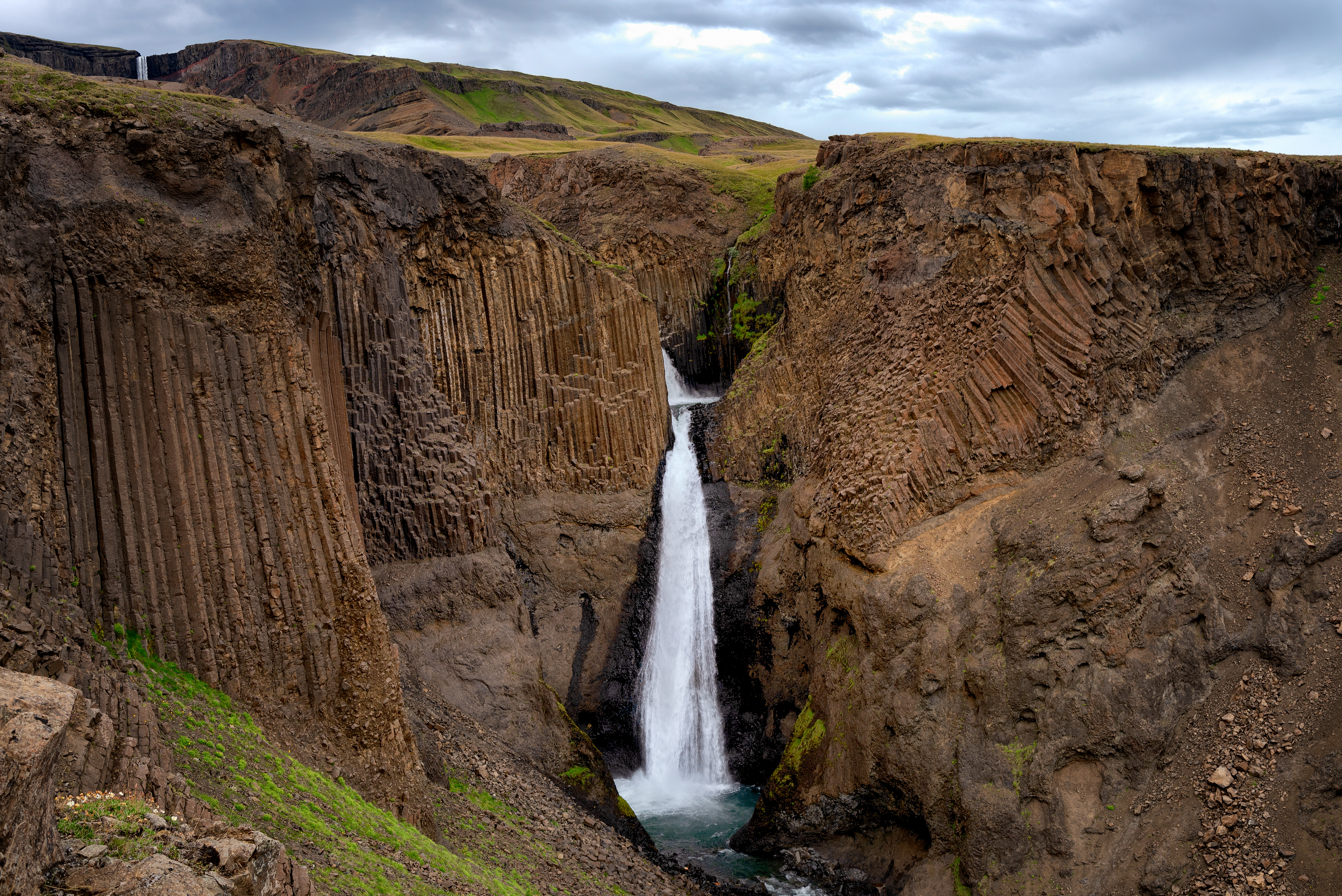 You can see the Hengifoss waterfall way off in the distance in the upper left.